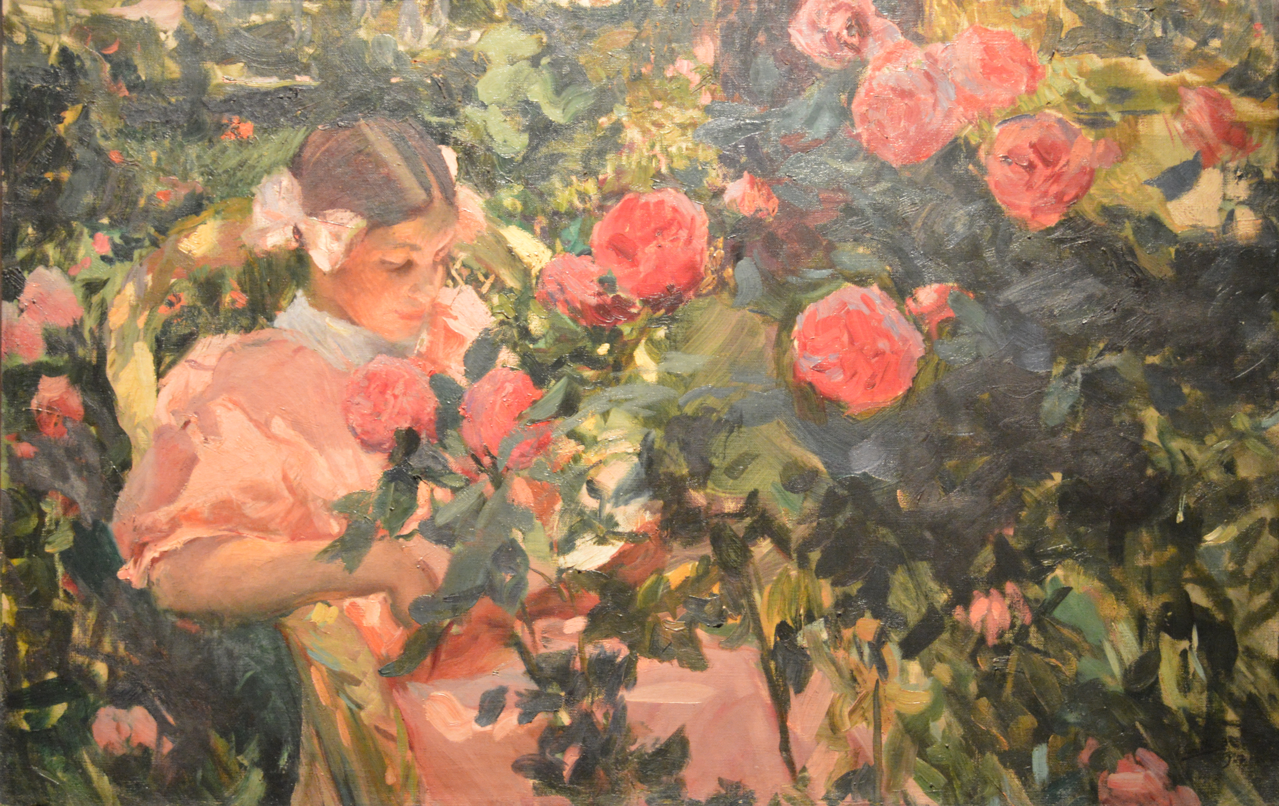 Elena Entre Rosas by Joaquin Sorolla (1907) from the Museo Nacional de la Habana Cuba